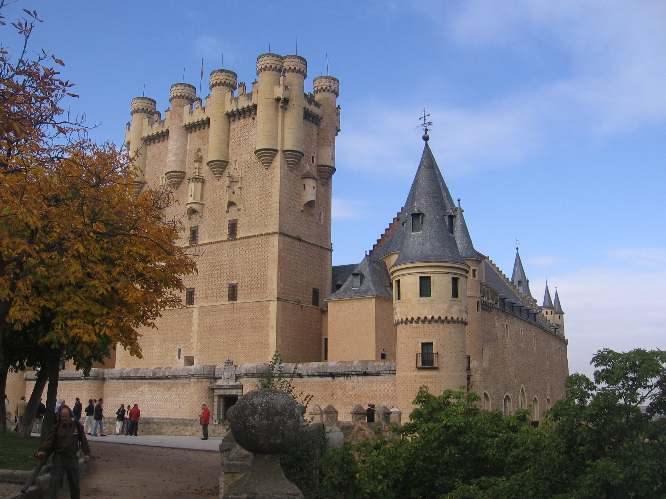 The Alcazar of Segovia.